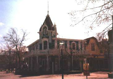 Photo by Richard J. Gardner (myself)